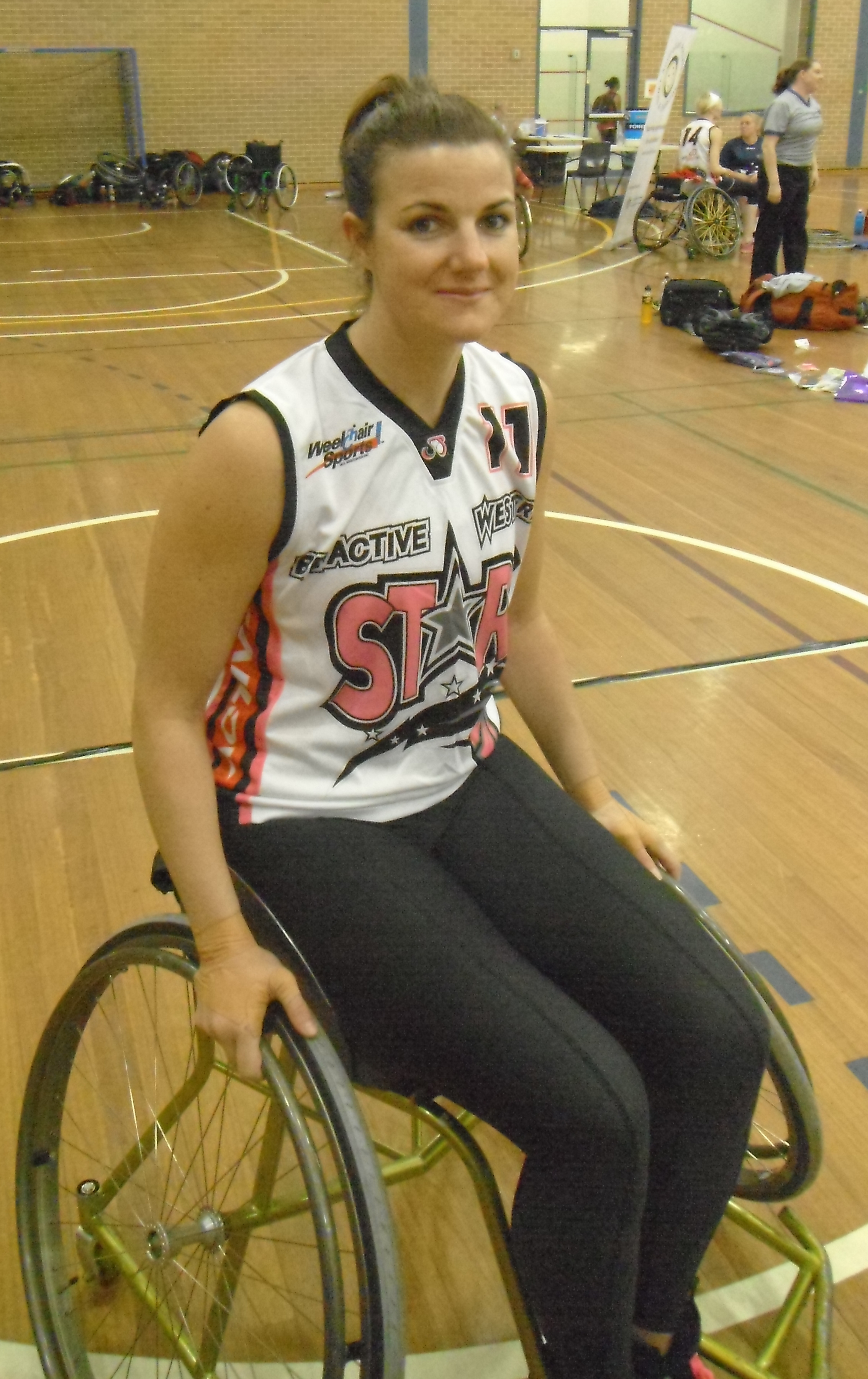 Deanna Smith playing wheelchair basketball for the Western Stars